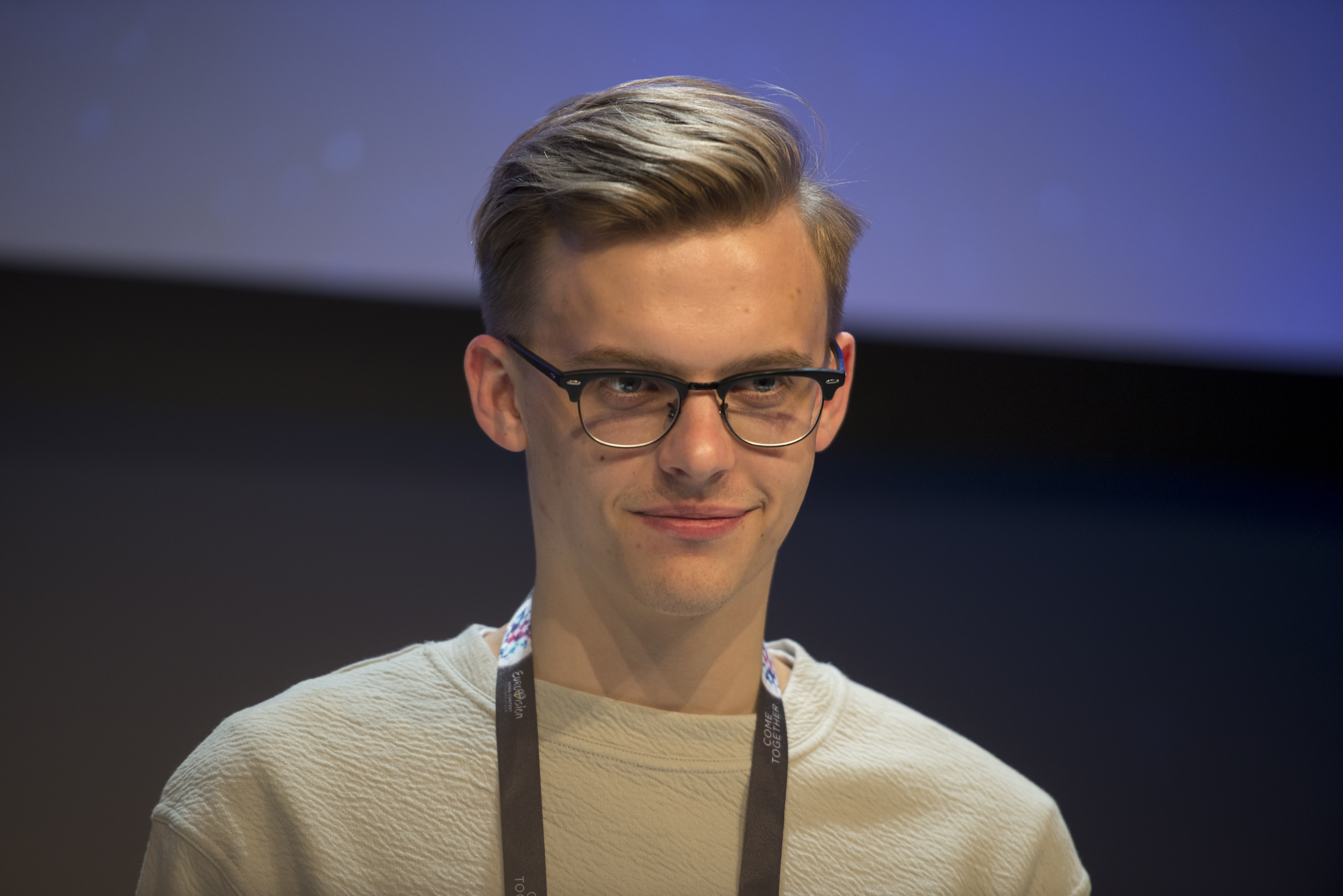 Jüri Pootsmann at a Meet & Greet during the Eurovision Song Contest 2016 in Stockholm. (Help translate this text)